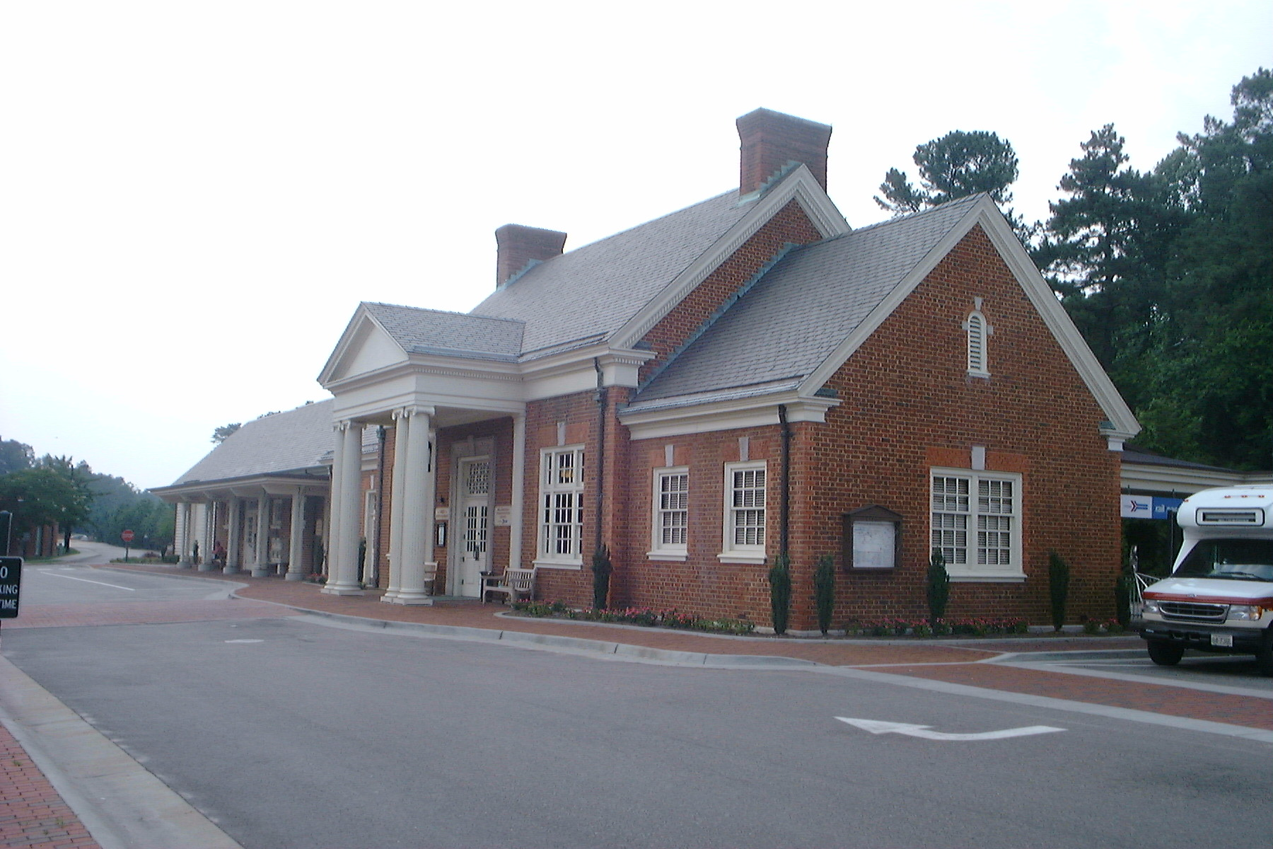 The Amtrak station in Williamsburg, Virginia.